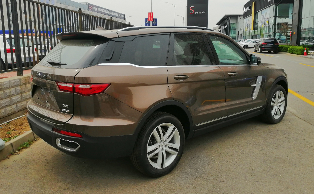 Zotye T800 photographed in Beijing, China.